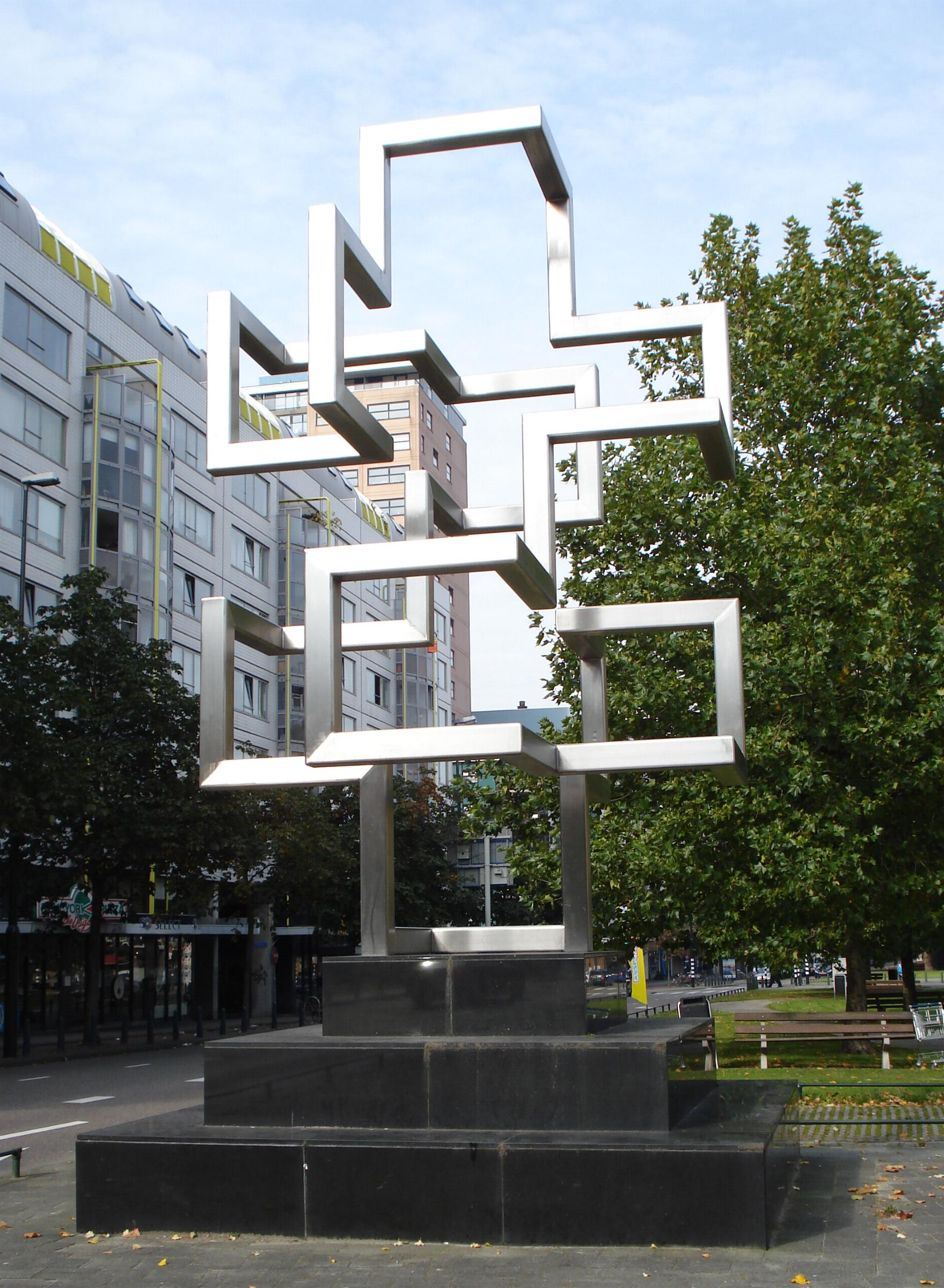 Rotterdam, Mariniersweg. Kunstwerk "Taxat" van Woody van Amen. Rotterdam/The Netherlands.